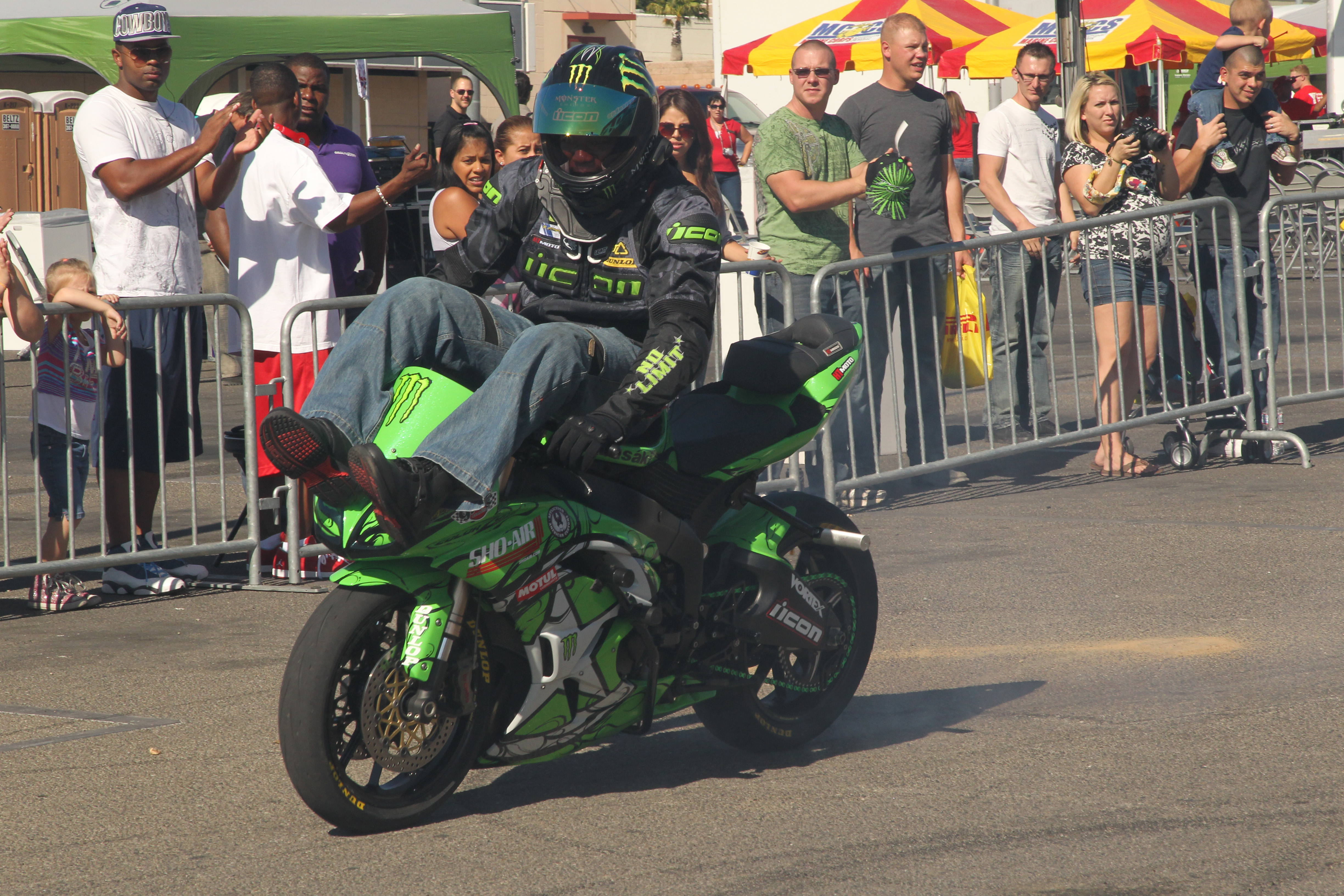 Jason Britton, a stunt rider for No Limit Entertainment, rides on the handle bars of his Kawasaki during the third annual Commanding General’s Car and Bike Show at the 5th Street and Brown Street parking lot Oct. 22, 2011.